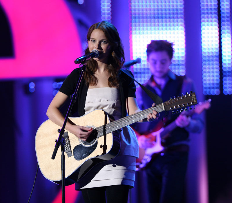 Nobel Peace prize Concert 2008, Oslo Spektrum, Marit Larsen